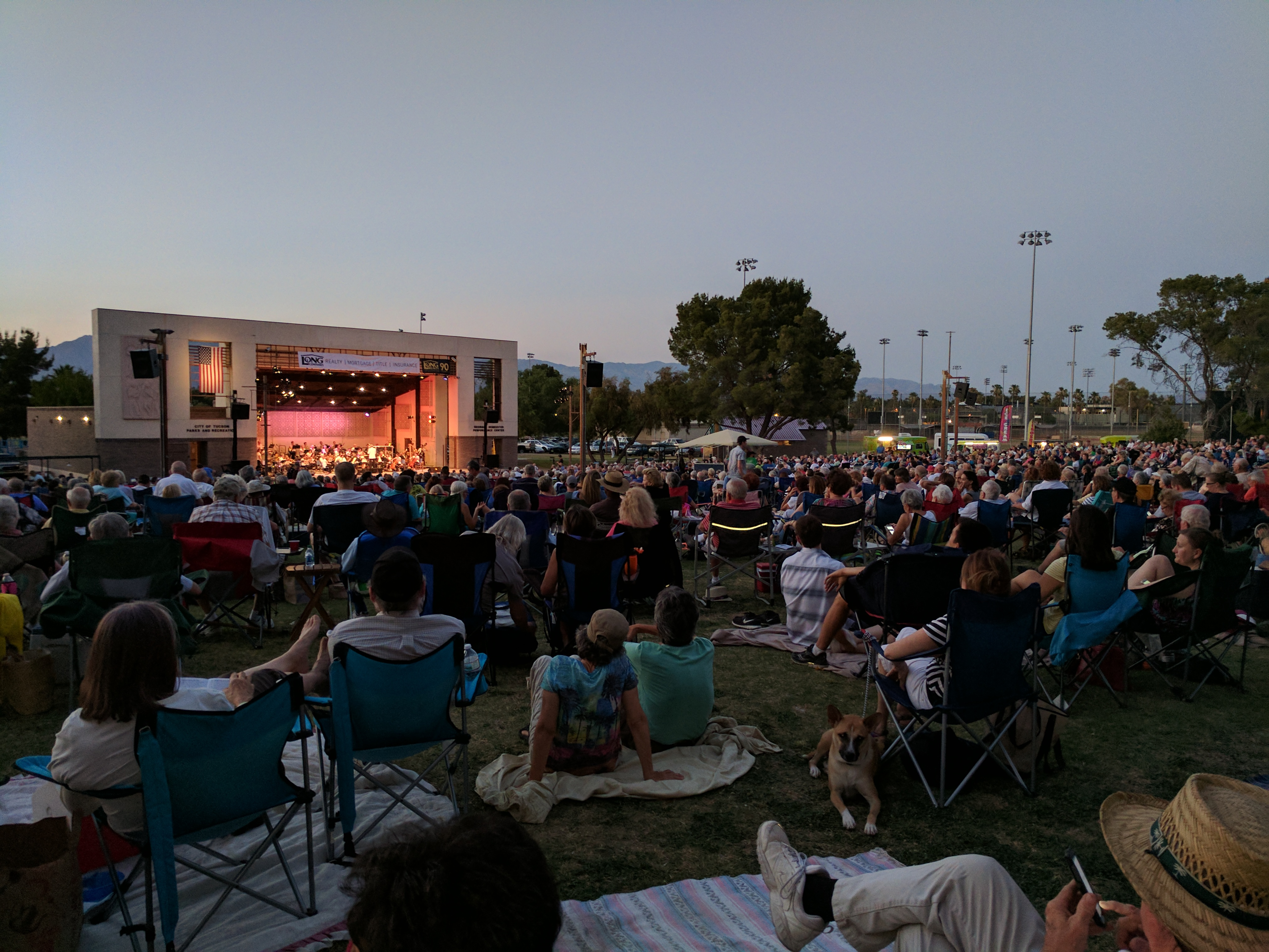 The Tucson Pops Orchestra performs at the George DeMeester Outdoor Performance Center in Reid Park on June 4, 2017.